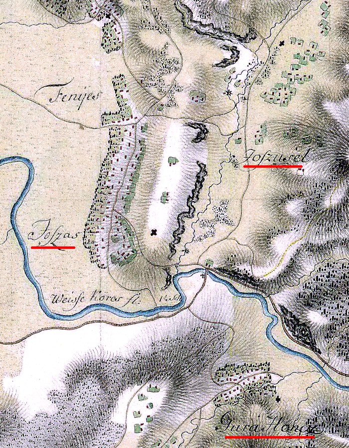 Arad County, 1782-85. Josephinische Landesaufnahme pg.28-27 (fragment)